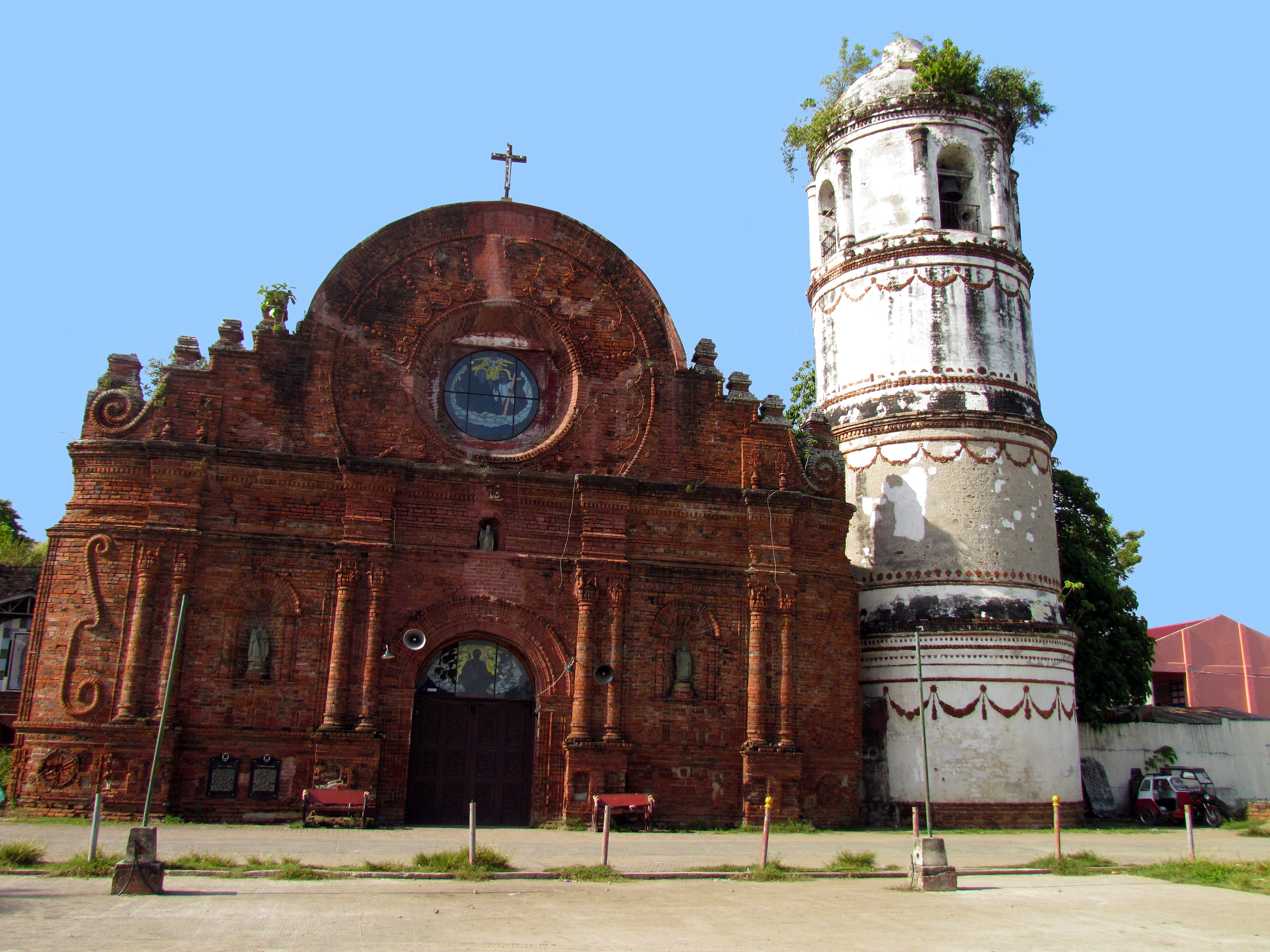 The old Catholic Church of Tumauini is a well-known landmark in Region II, the Church of stone with a unique cylindrical bell tower, the only of its kind in the Philippines. Photo by Jose B. Cabajar.